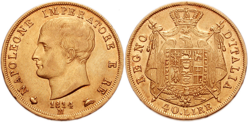 Napoleon I. 1804-1814. AV 40 Lire (26mm, 12.86 g, 7h). Milan mint. Dated 1814 M. Bare head left / Crowned arms, supported by eagle, crossed sceptres and ermine robes all behind. KM 12: Friedberg 5.